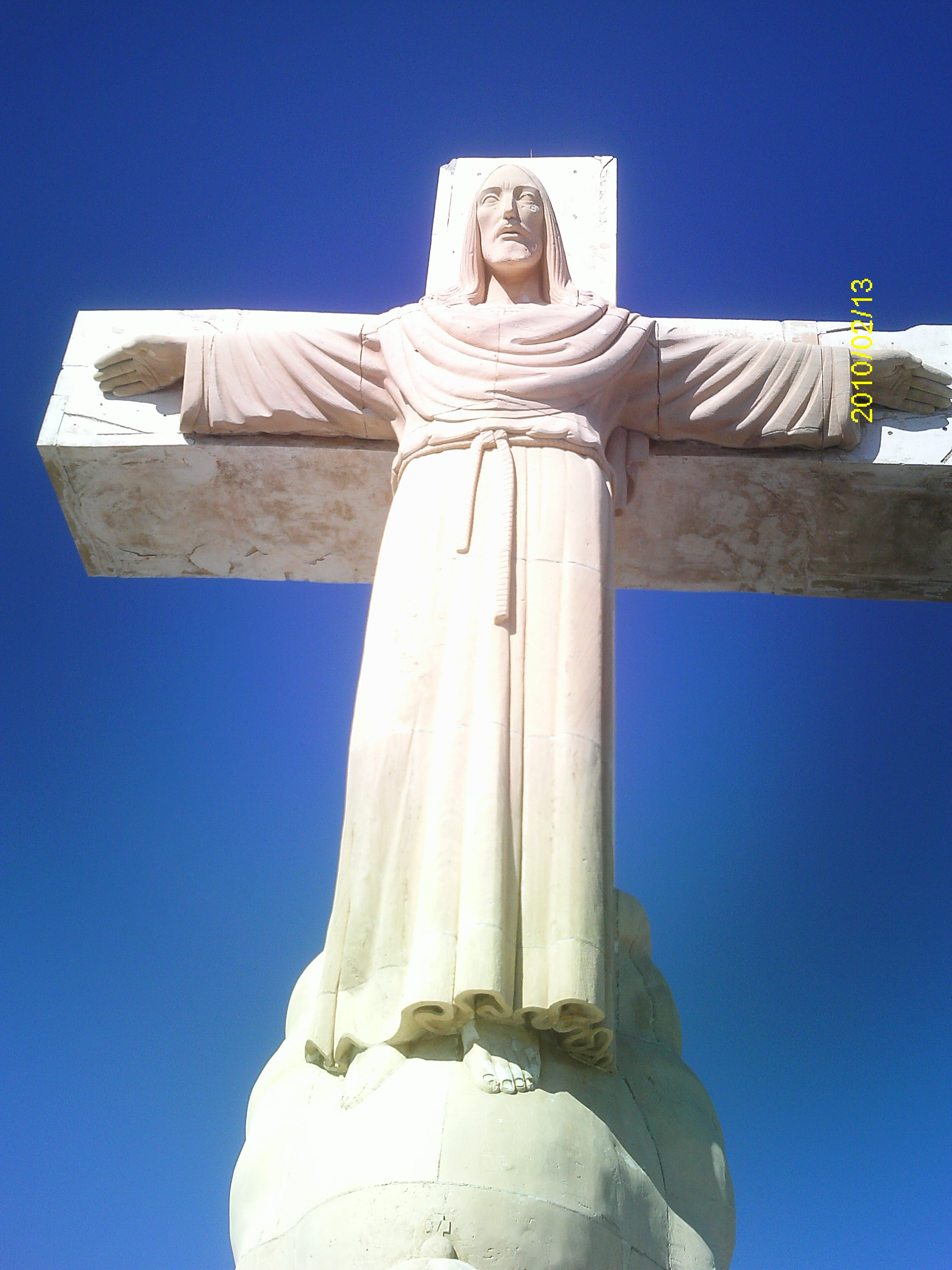 The cross at the top of Mount Cristo Rey, Sunland Park, New Mexico, United States of America. Cristo Rey means Christ the King in Spanish. The mountain is situated on the U.S./Mexico border.